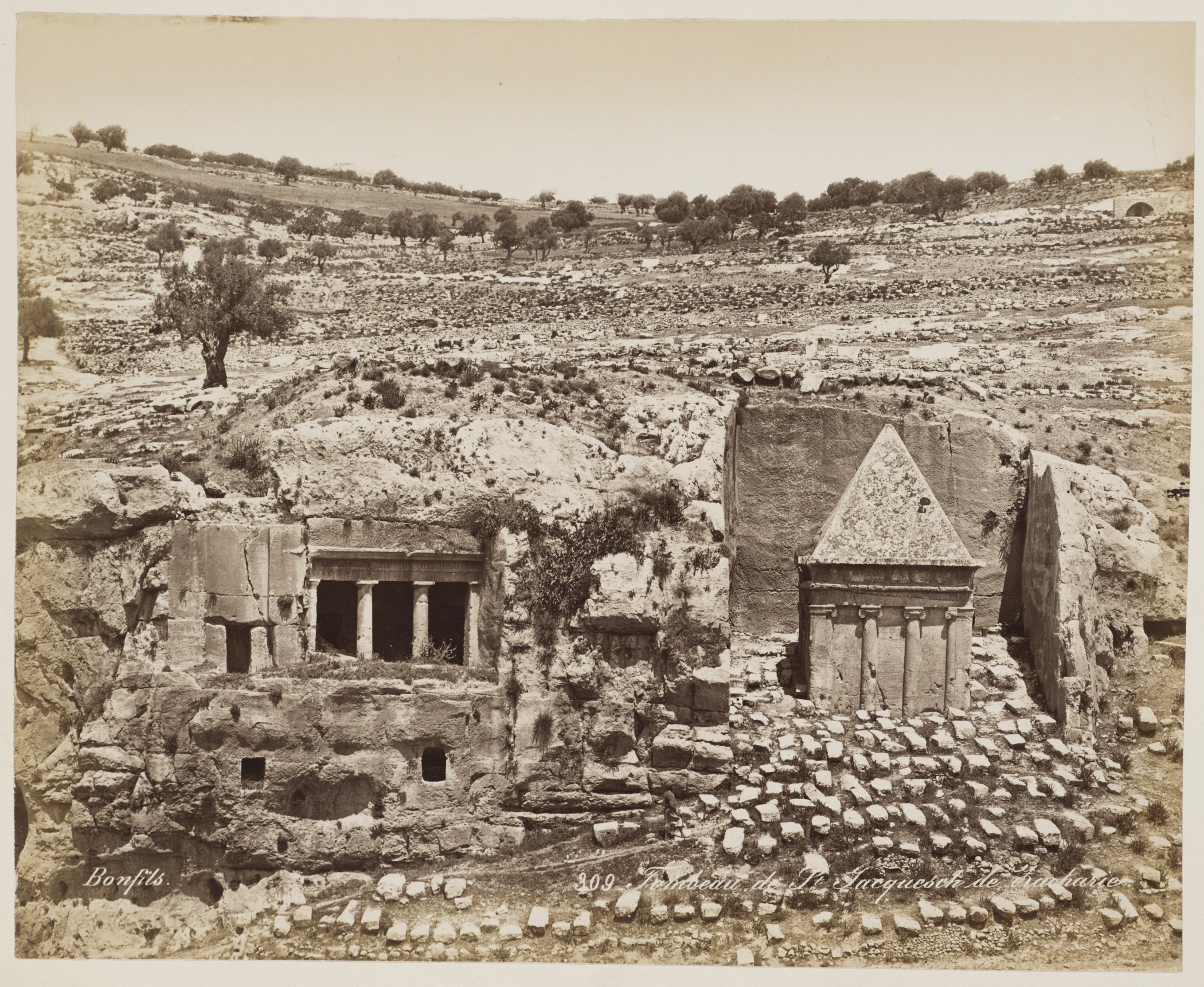 Israel, 1870, printed circa 1870 Photographs Albumen print Image: 8 7/8 x 11; Mount: 12 3/8 x 15 1/4 The Marjorie and Leonard Vernon Collection, gift of The Annenberg Foundation, acquired from Carol Vernon and Robert Turbin (M.2008.40.265) Photography